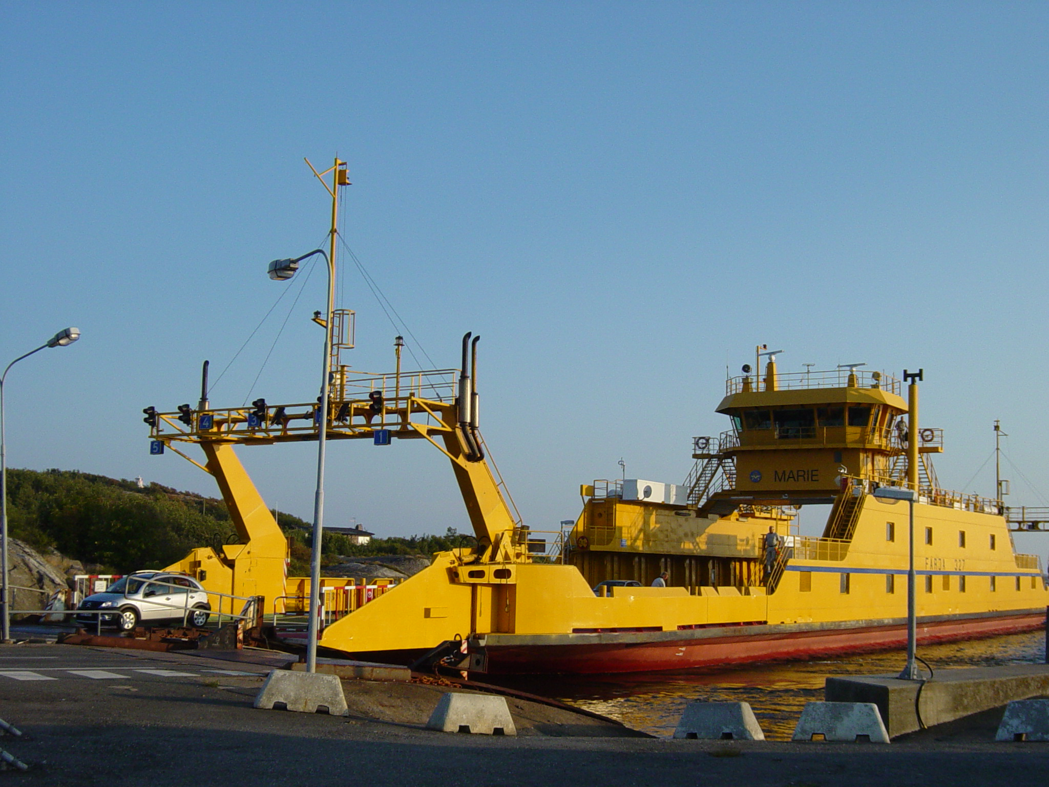 Björkö island Västra GötalandsSweden